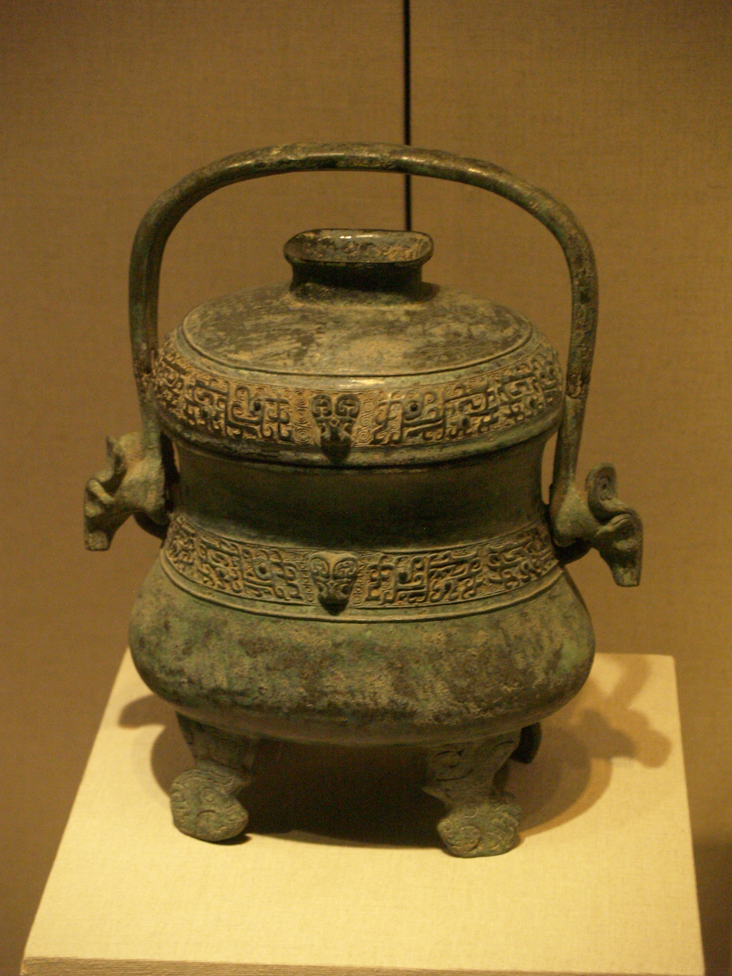 Wine vessel, Shaanxi History Museum Info provided by the museum below: "You" Wine Vessel with Characters "Yu Ji" Early Western Zhou Dynasty (11 Mid-10th Century BC) Excavated from Zhuyuangou cemetery, Baoji City